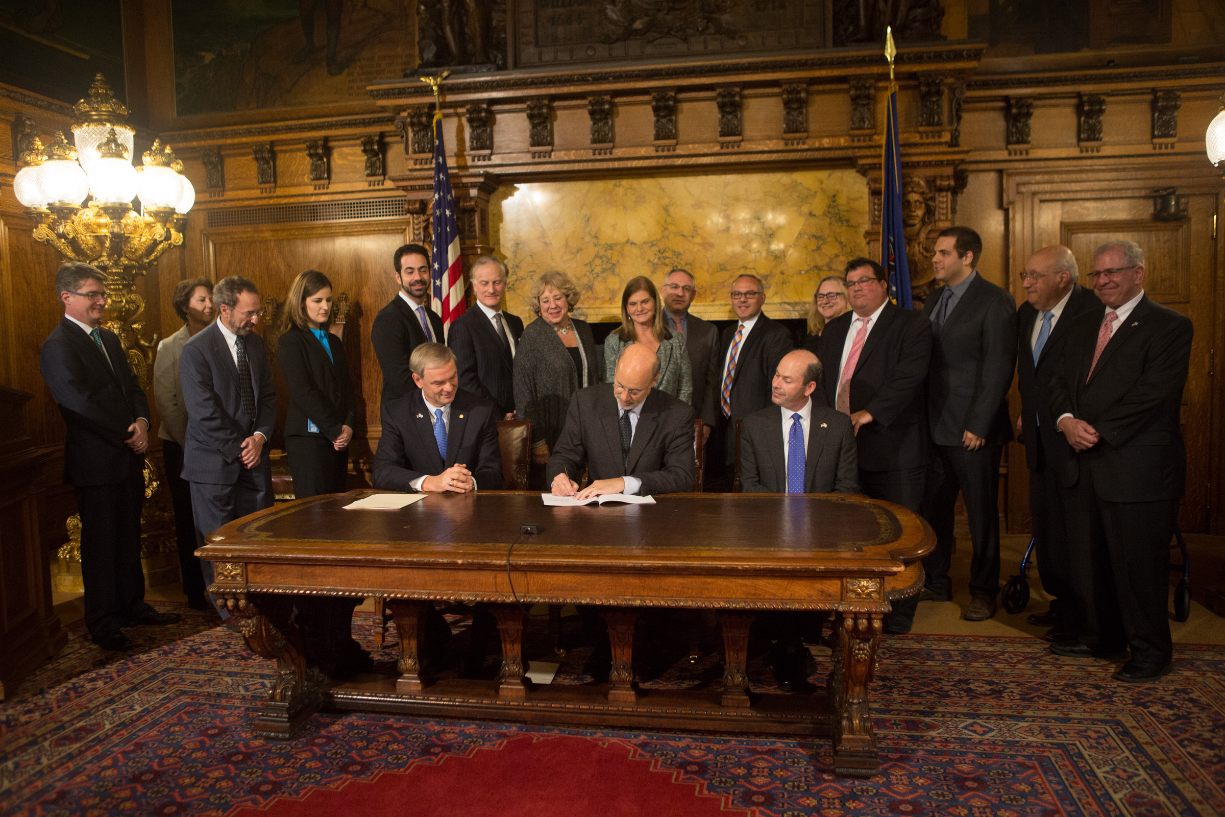 November 4, 2016 Harrisburg, PA